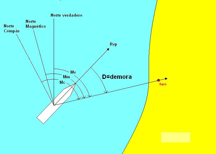 Bearing scheme (spanish marcación)Nautical terms